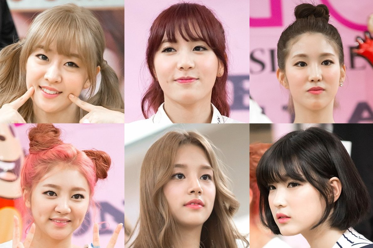 LABOUM on 12 October 2014. Left to right, first row: Yujeong, Suyeon, ZN. Second row: Haein, Solbin, Yulhee.